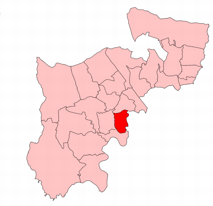 A map of Acton constituency within Middlesex, as it existed from 1945 to 1950.